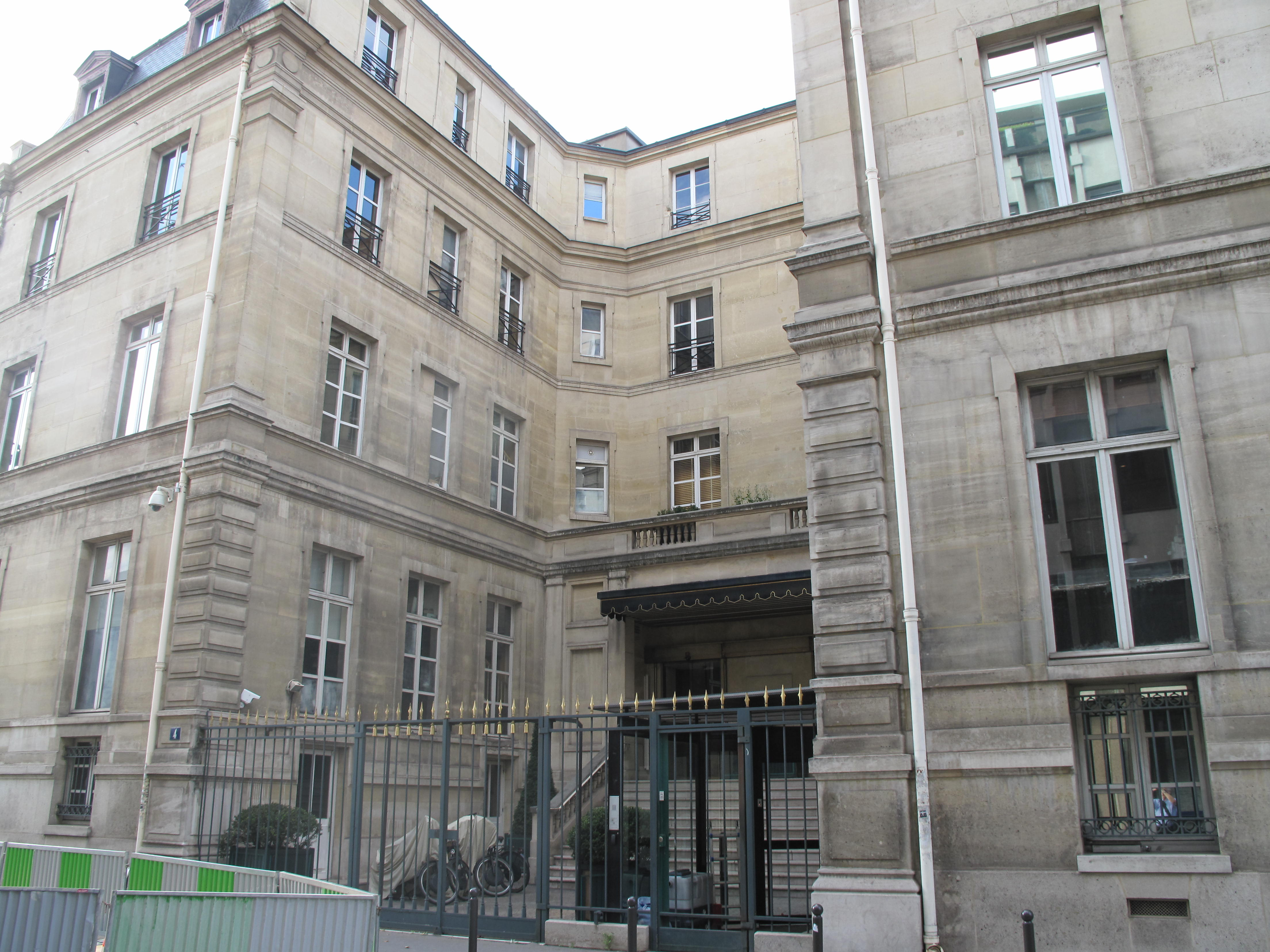 Building at 4 rue de Presbourg, Paris 8th arrond. Head office of the French group Lagardère.